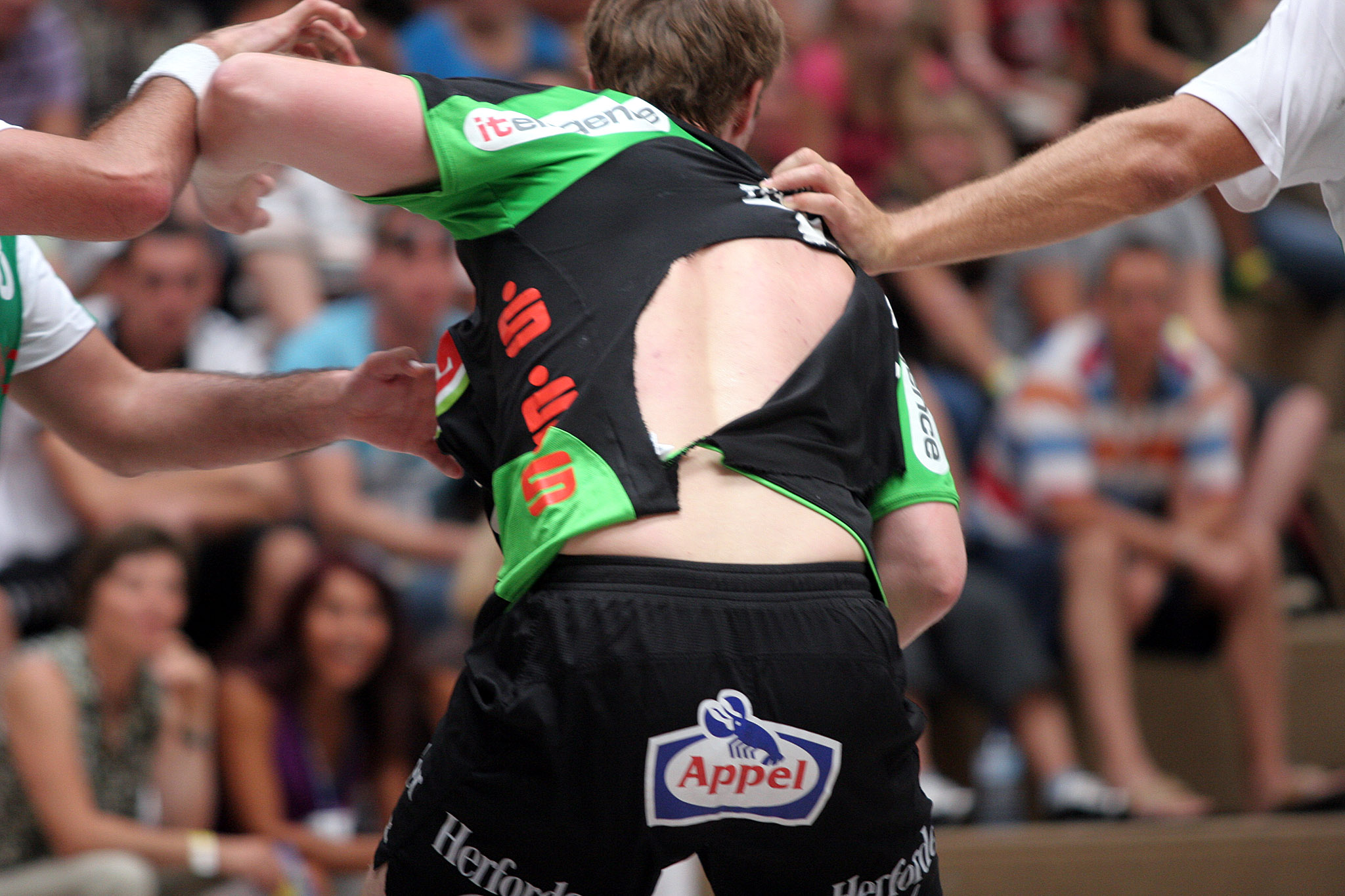 Vignir Svavarsson, handball player from TBV Lemgo on August 30th, 2008 in Ehingen during a game for the Schlecker Cup 2008